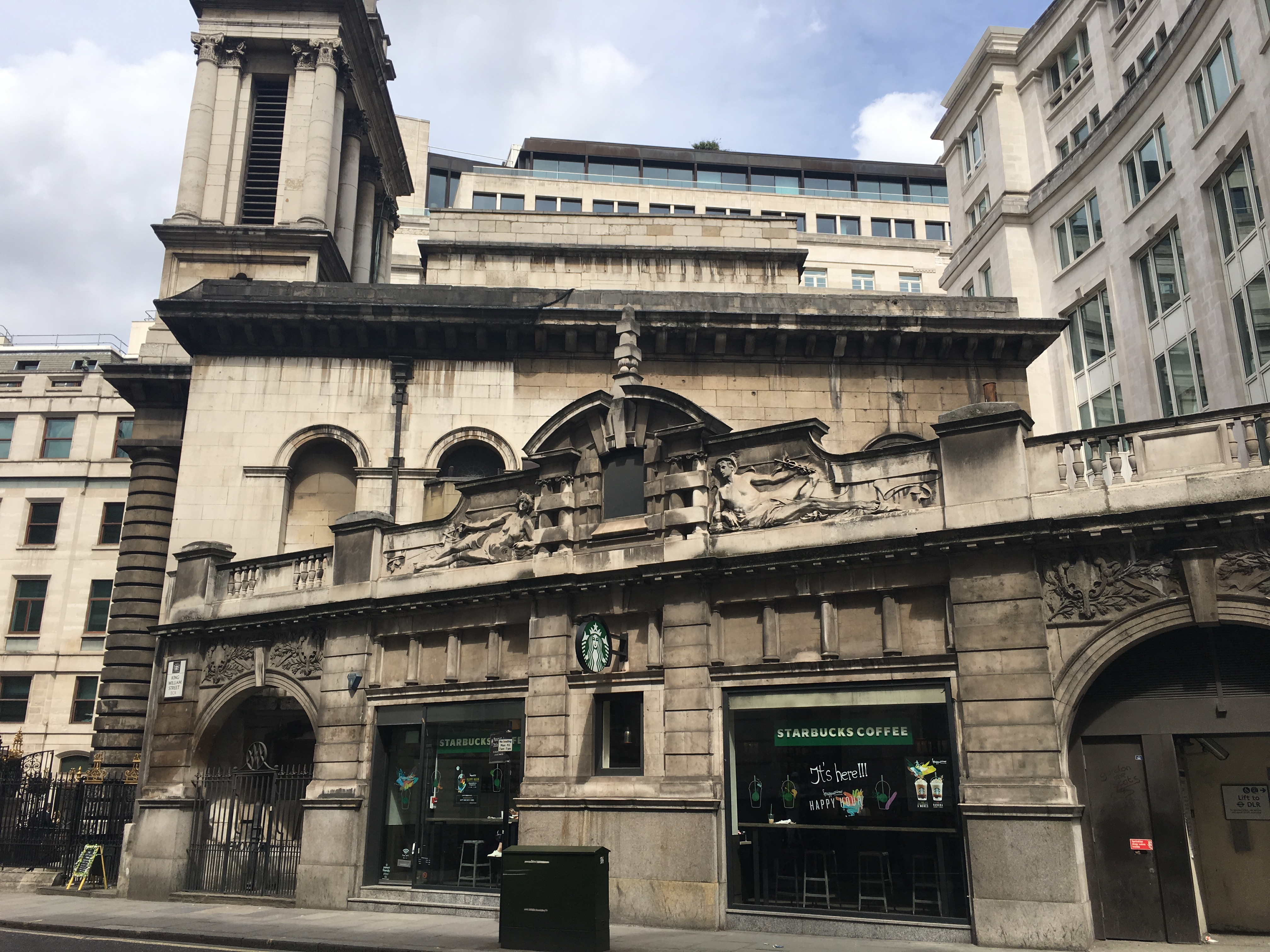 Starbucks by Bank Station, part of Hawksmoor's St Mary Woolnoth church